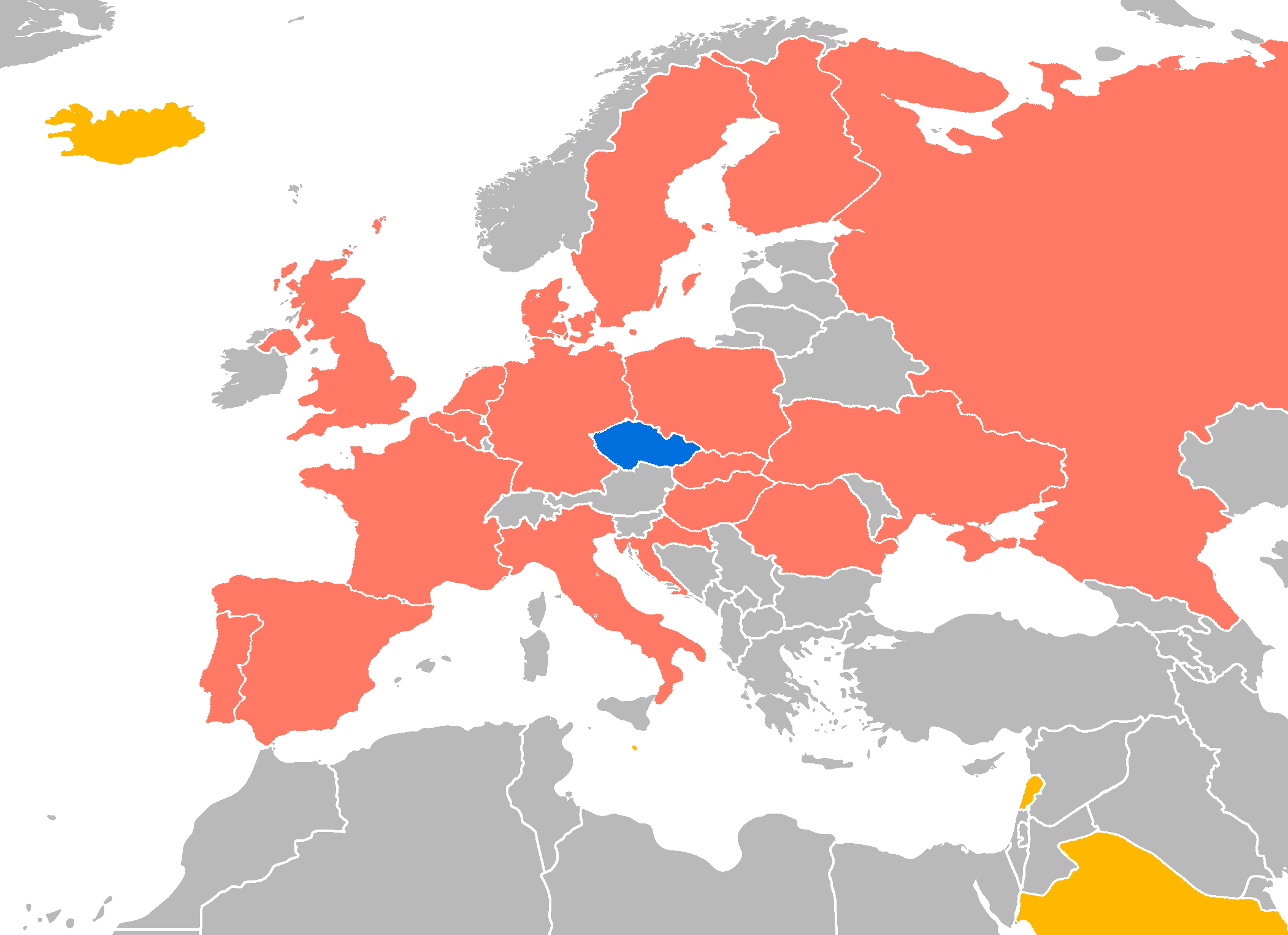 Czech Airlines destinations summer 2017 blue: Czech Republic red: scheduled destinations yellow: seasonal destinations not including codeshare destinations etc.